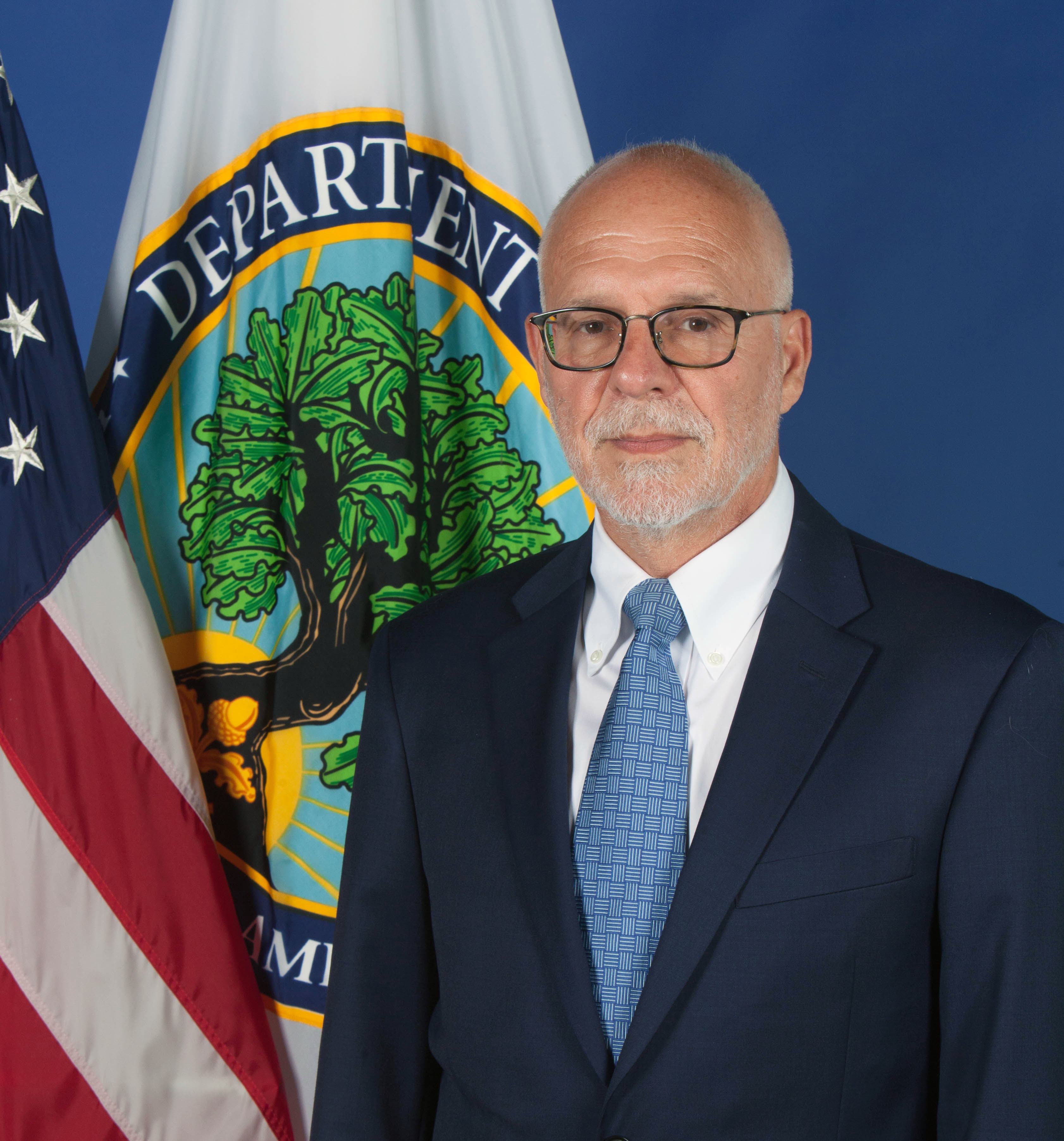 Mark Schneider official photo